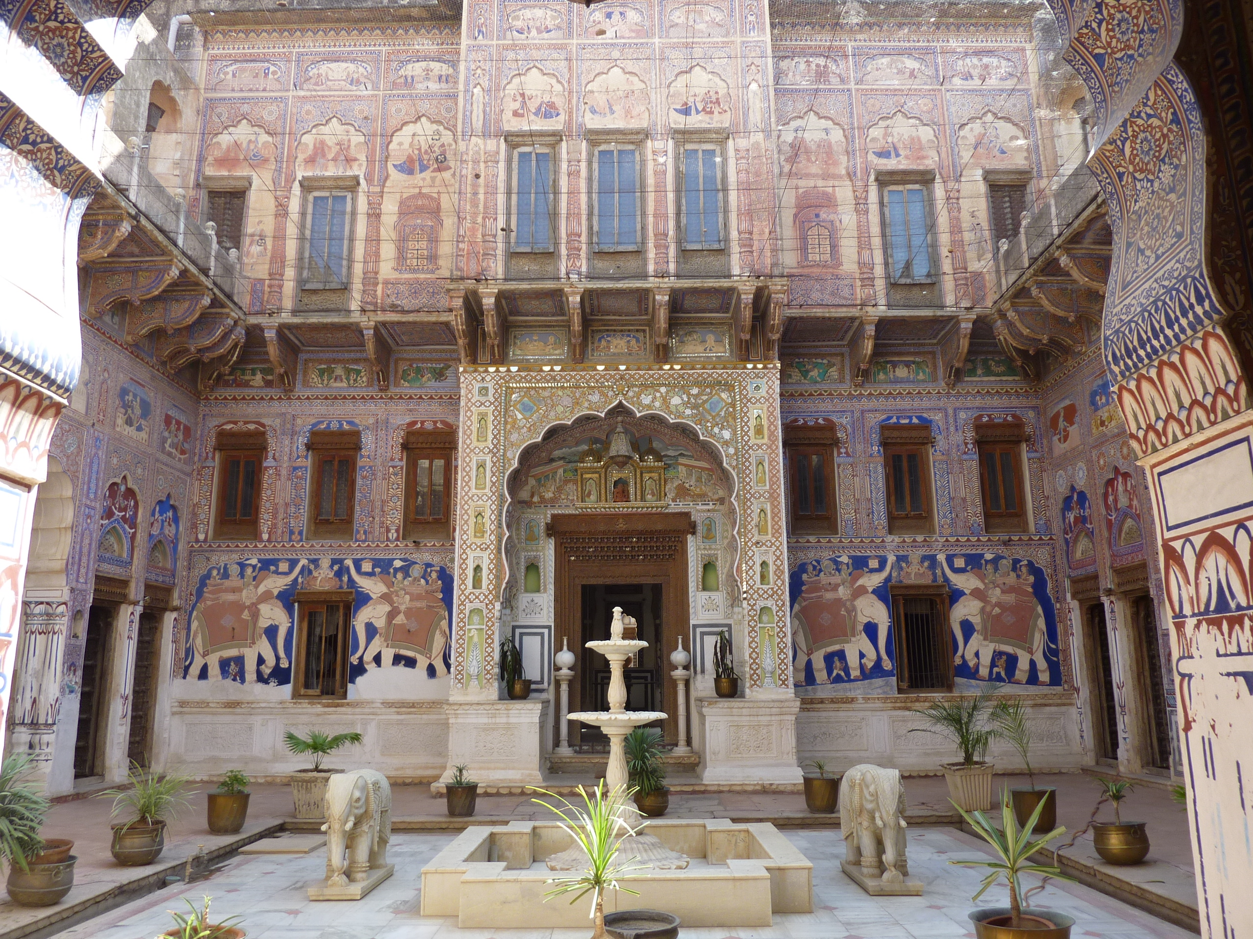 First courtyard of 19th century Le Prince Haveli in Fatehpur, Rajasthan.